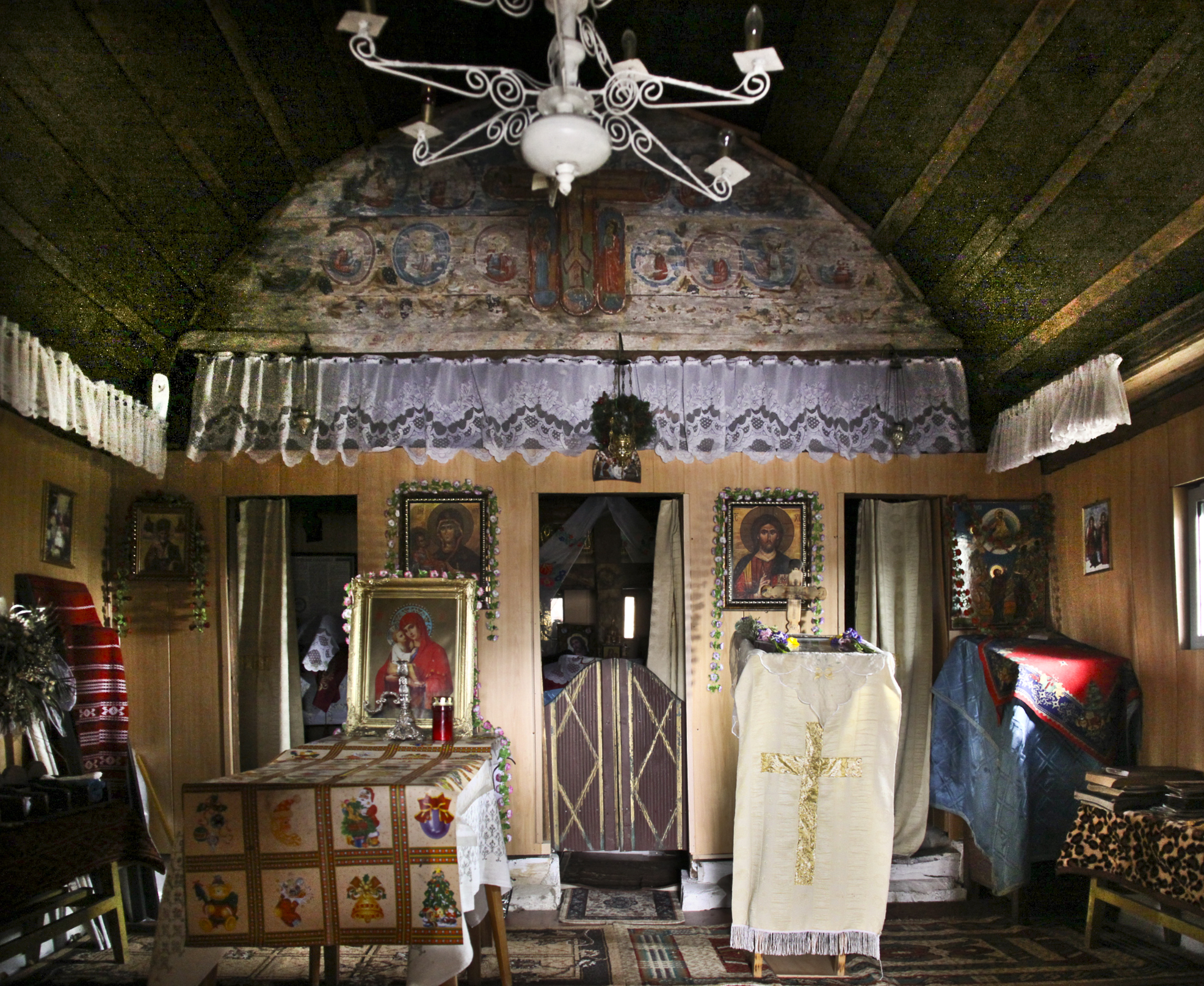 Wooden church in Teleşti, Argeş county, Romania.